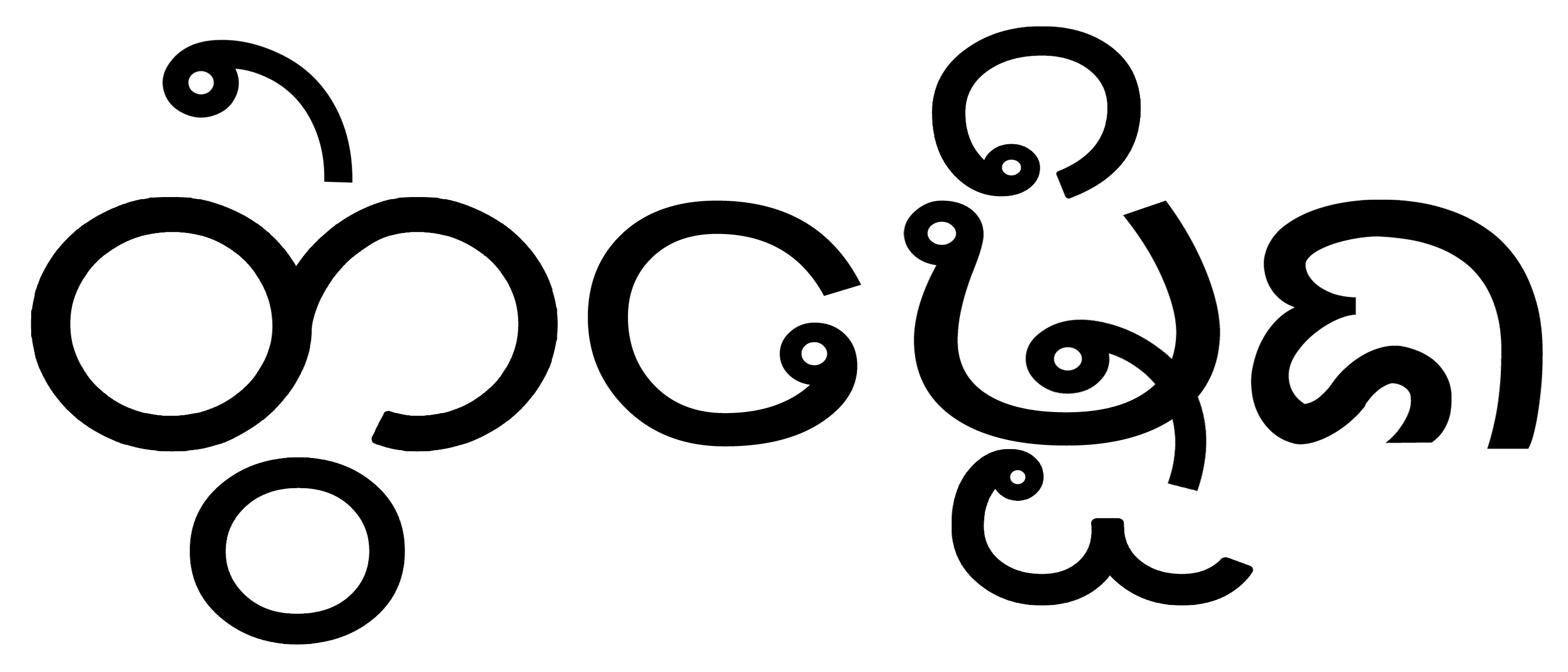 "Tai Tham script" written in Tai Tham script. Font: Lanna Alif(Tai Tham Unicode)